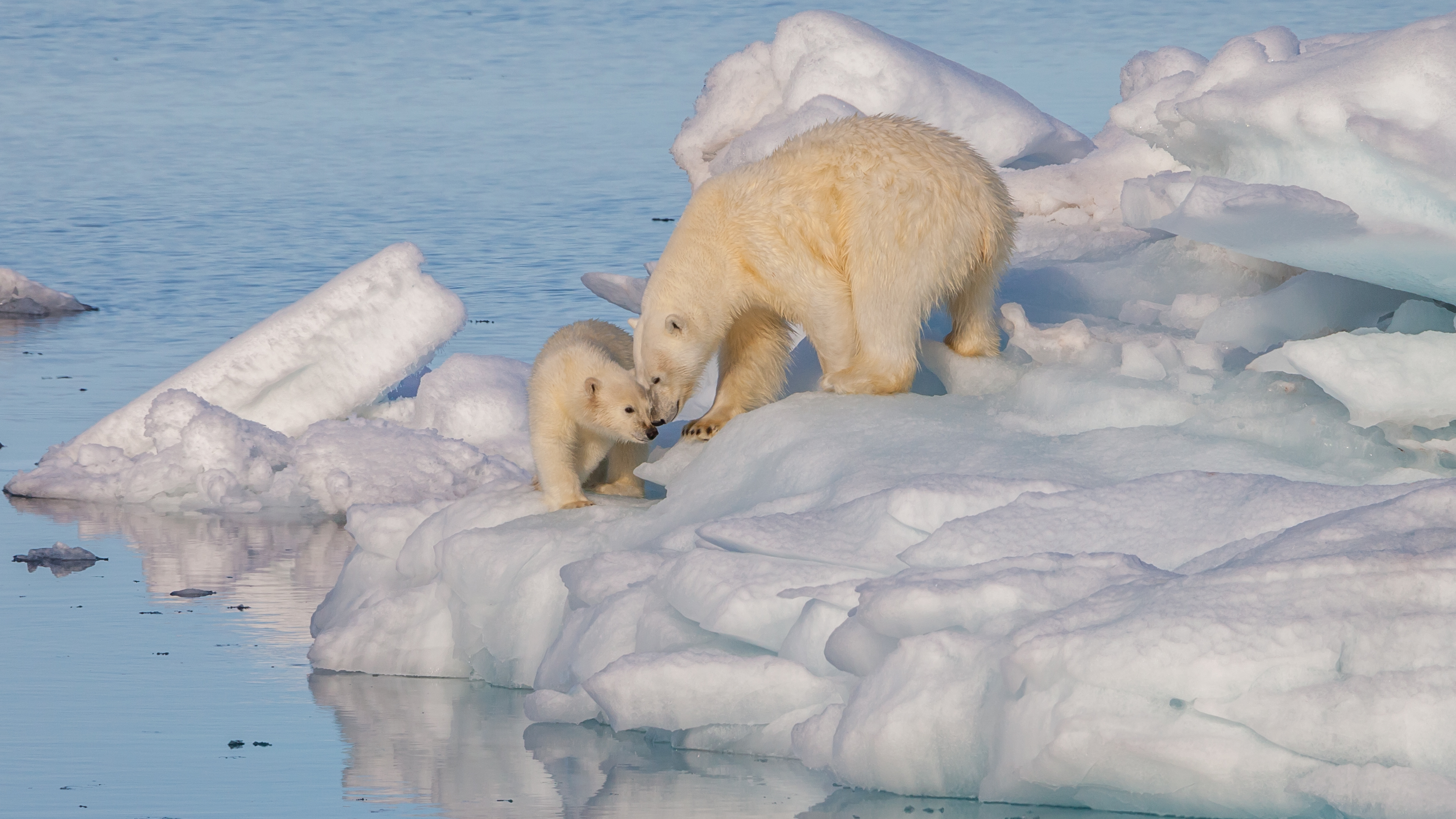 A female polar bear (Ursus maritimus) and its cub on dense drift ice in Hinlopen strait, Svalbard. Both, mother and cub look well-fed and healthy since they obviously succeded reaching the northern drift ice in spring in due time. Here the mother is urging the young one to jump into the water.